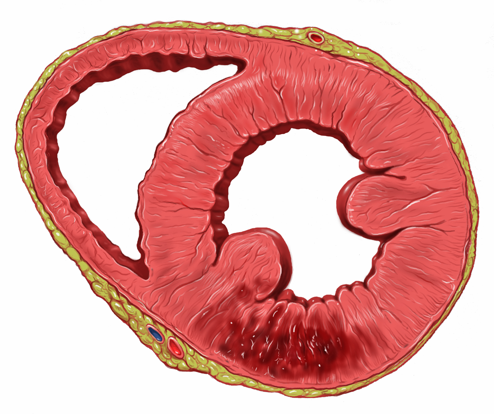 Inferior wall infarction, short axis echocardiography view